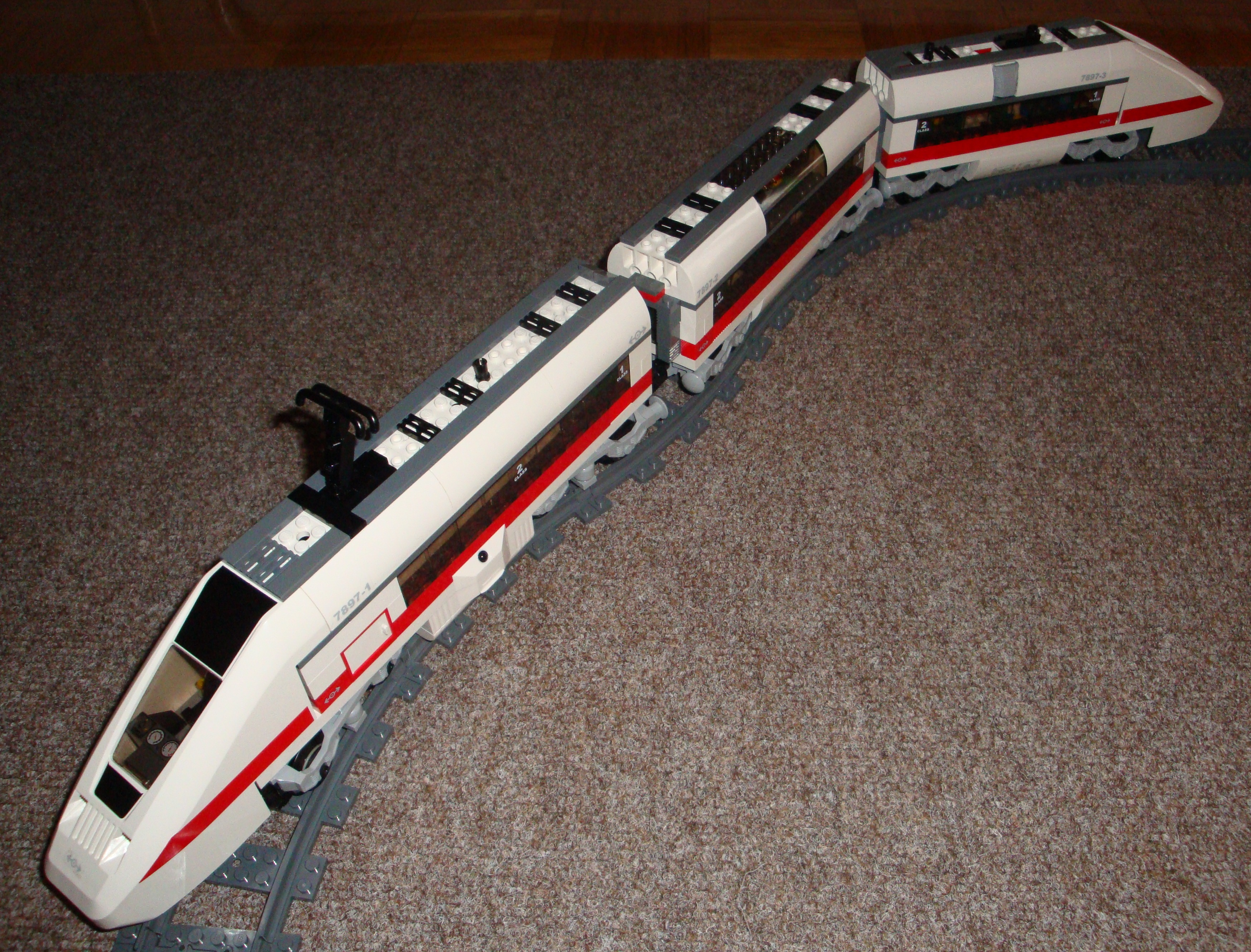 Lego speed train - LEGO 7897 City Passenger Train - Year 2006